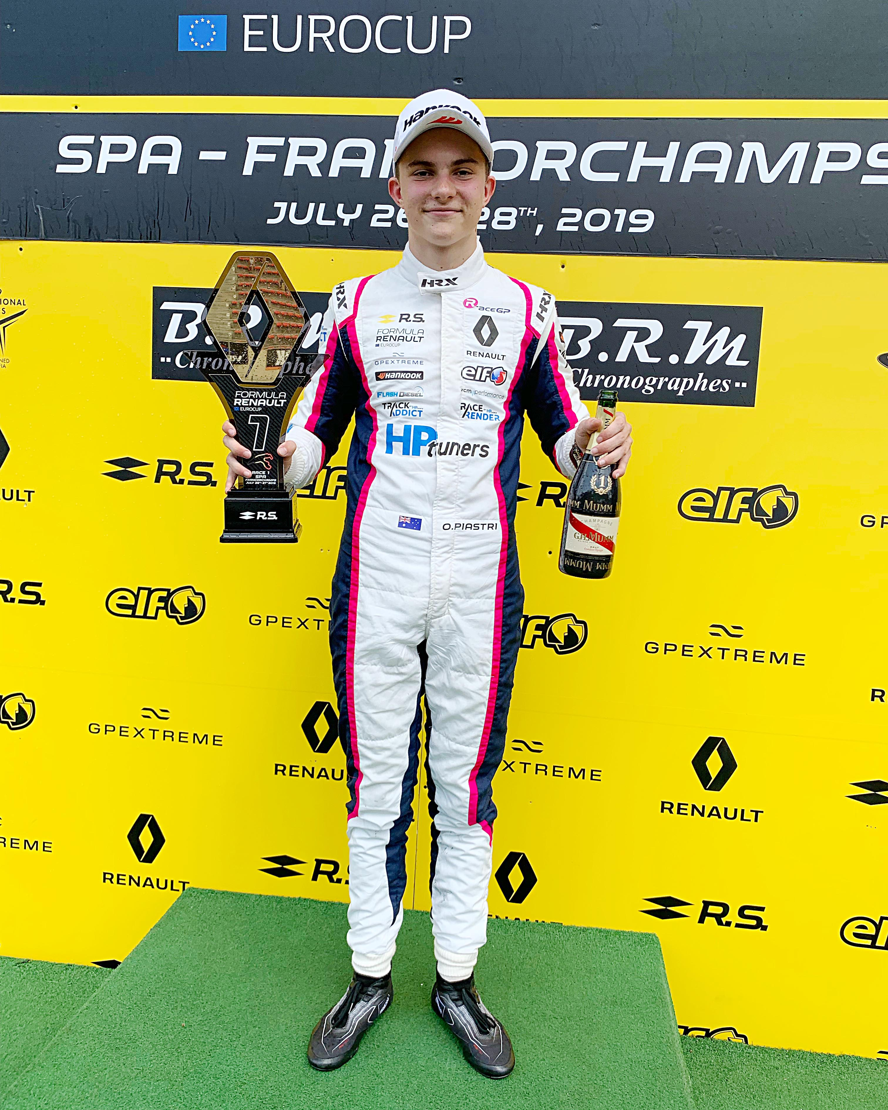 Oscar Piastri on the podium at Spa-Francorchamps after winning a race in Formula Renault Eurocup